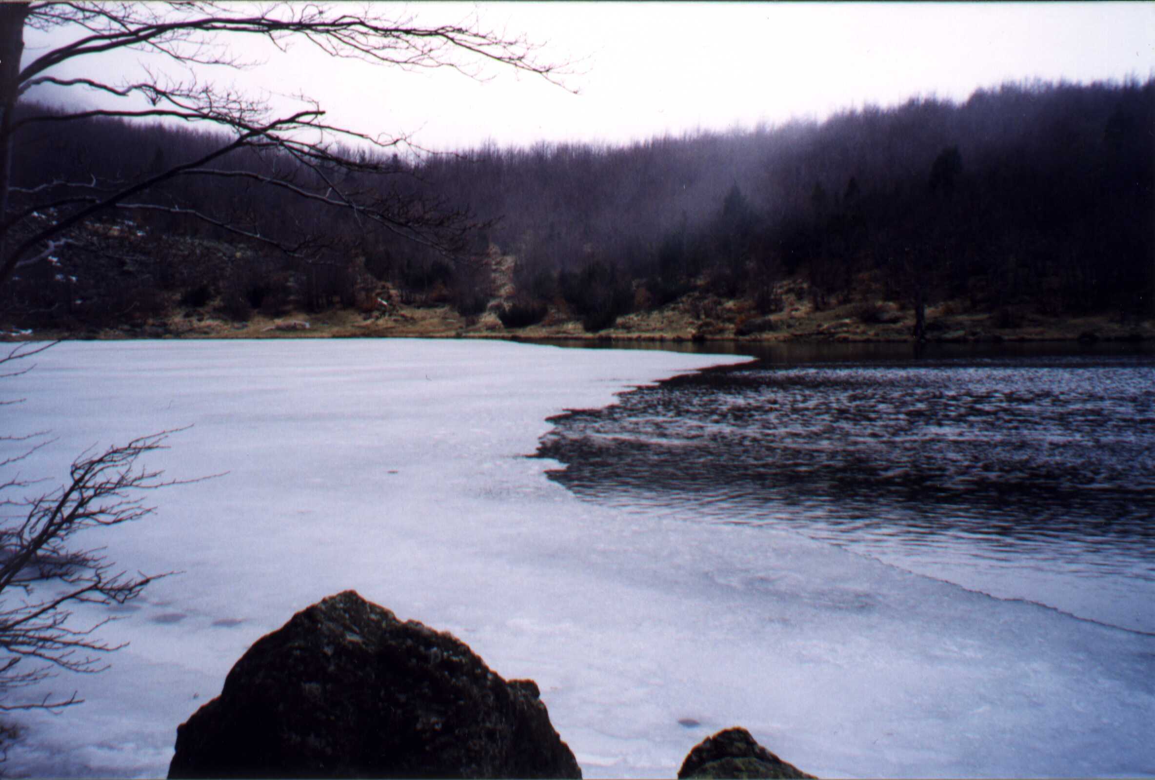 Picture of Lago Nero, Val Nure, Piacenza, Italy, at the end of the winter